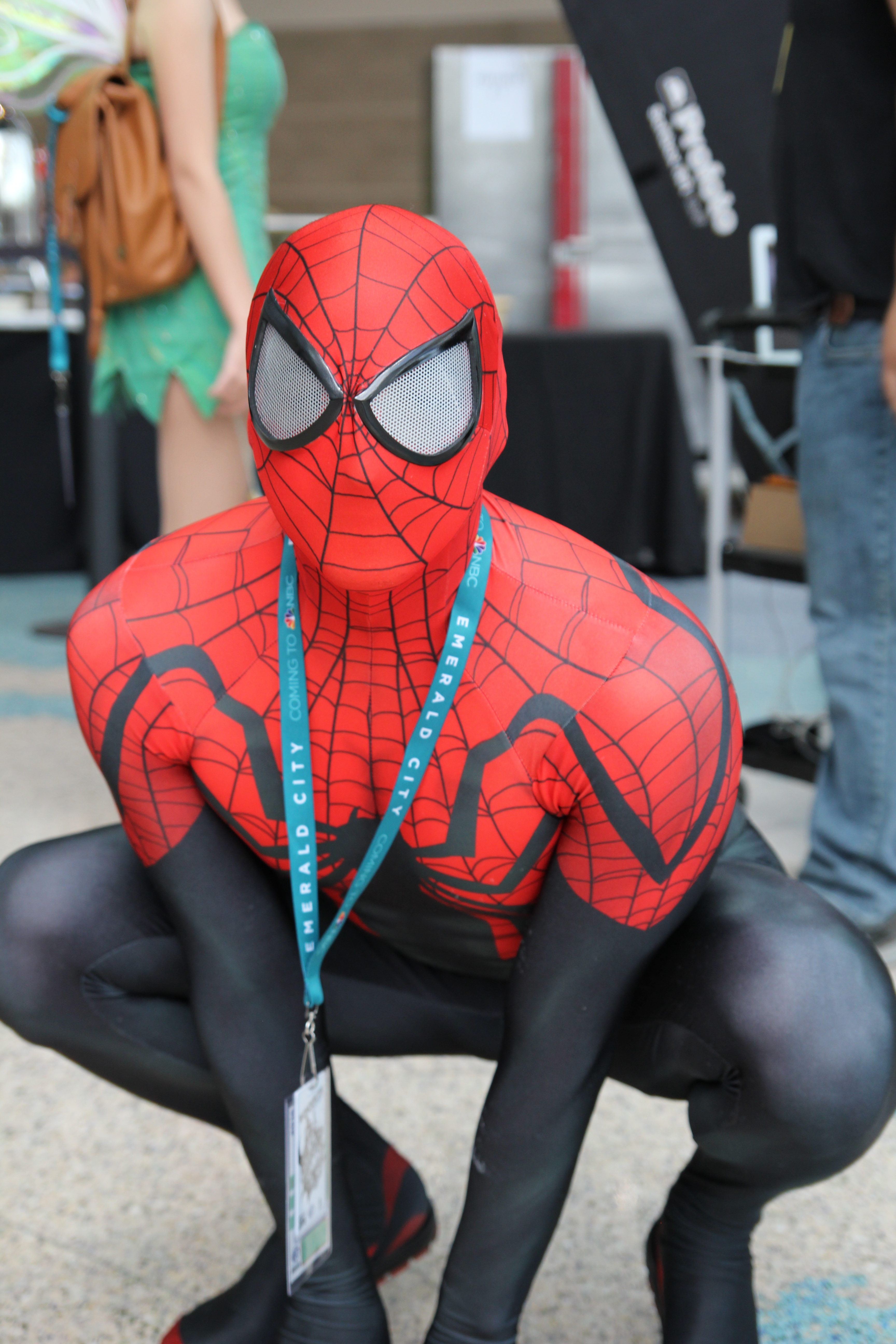 Wondercon 2016 - The Superior Spider-Man Cosplay Cosplay at WonderCon 2016.